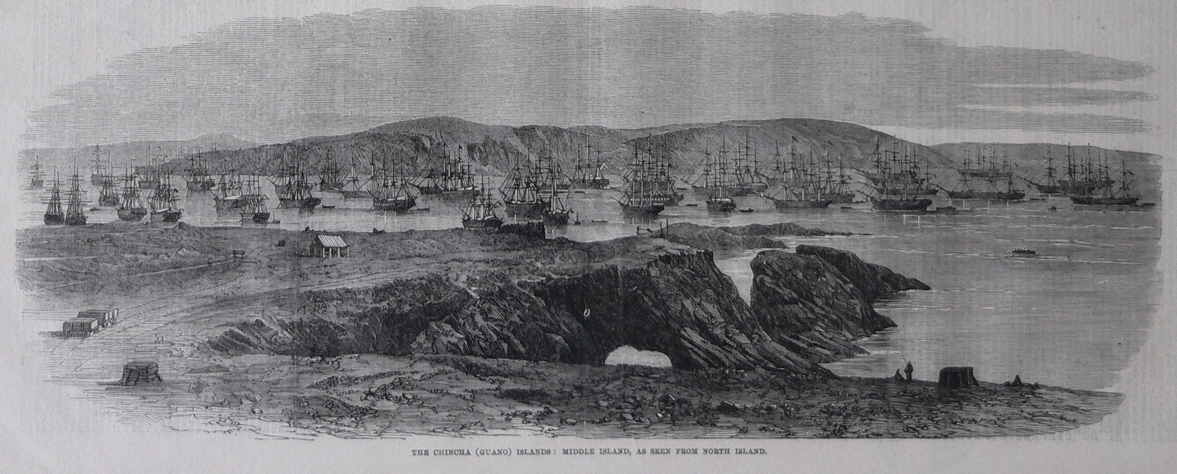 Description: Chincha Subject: View of the Chincha guano islands Country : Peru Published by : The Illustrated London News Page : 200 Date : February, 21st, 1863 Photographer: © Manuel González Olaechea y Franco Shot date : November, 20th , 2005